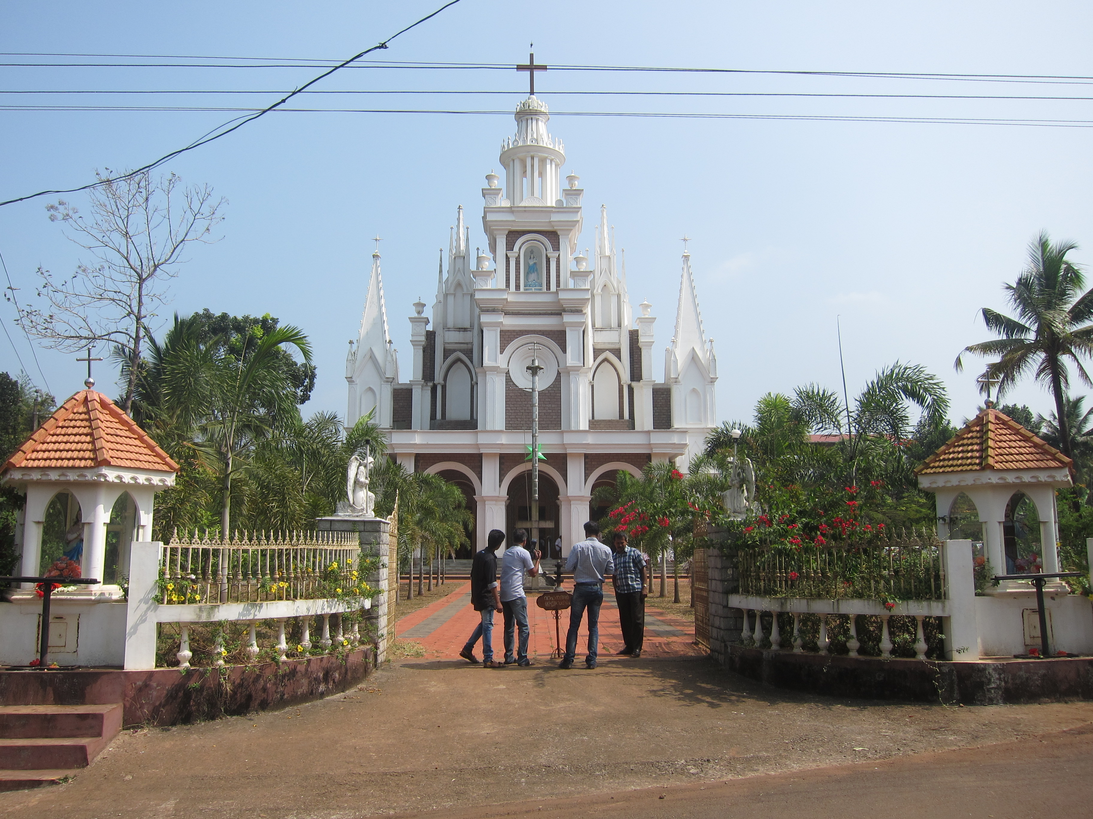 St: Mary's Church, Parekkattukara, Kodakara Irinjalakuda Diocese Syro-Malabar Catholic Church സെന്റ് മേരീസ് ചർച്ച്, പാറേക്കാട്ടുകര, കൊടകര ഇരിങ്ങാലക്കുട രൂപത സീറോ-മലബാർ കത്തോലിക്ക സഭ